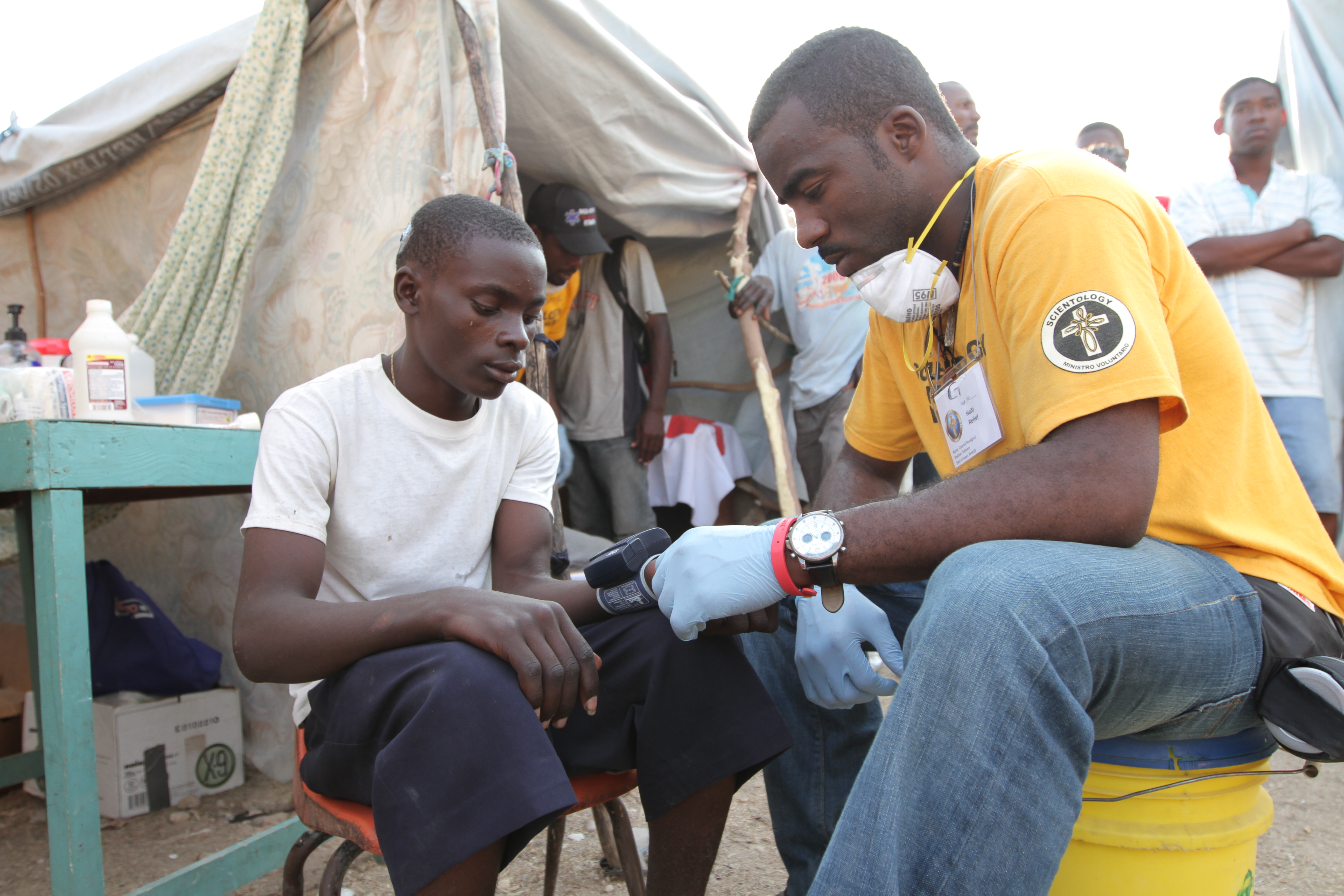 Scientology Volunteer Ministers doing medical work in Haiti 2010